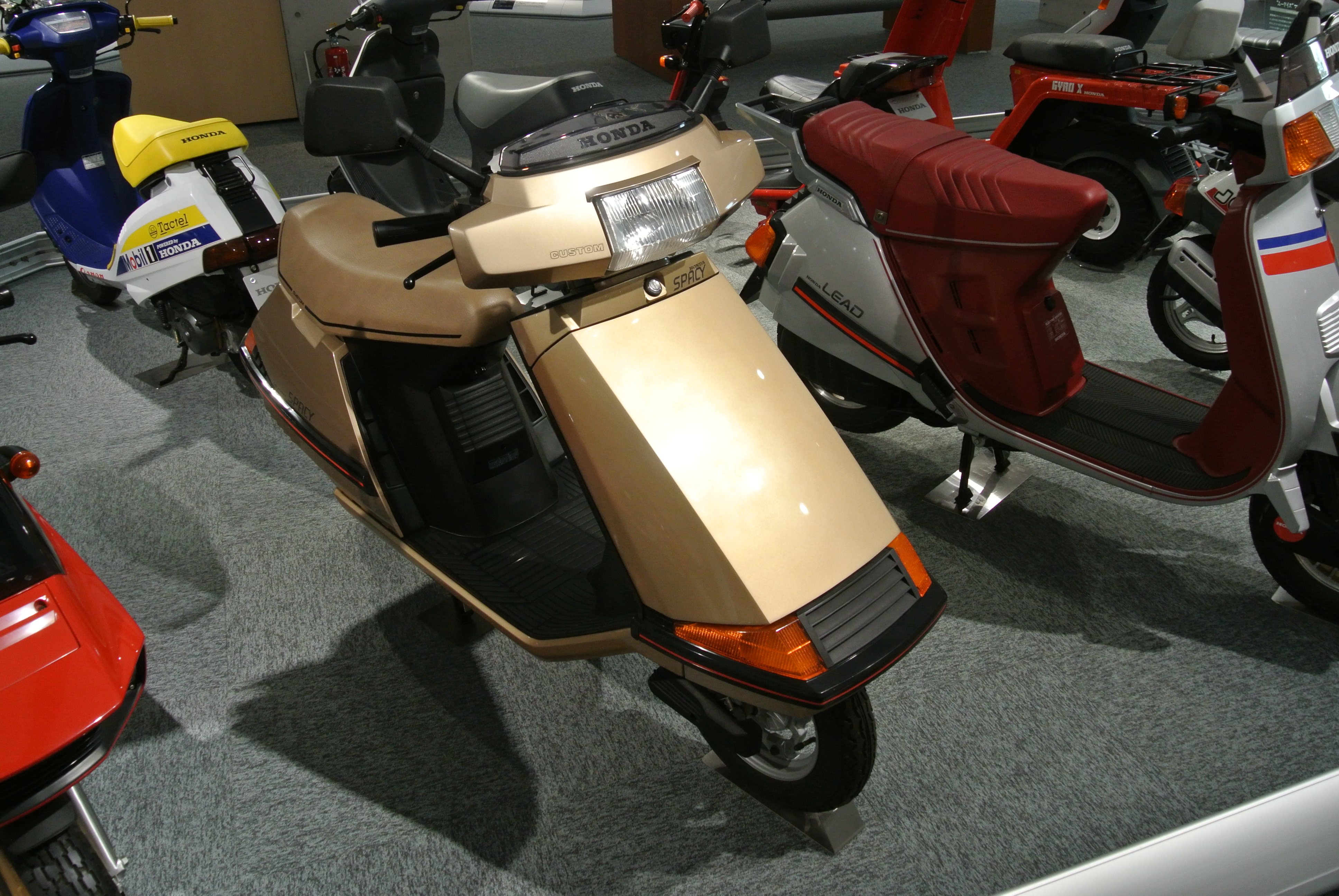 Honda Scooter SPACY 1st Gen in the Honda Collection Hall.